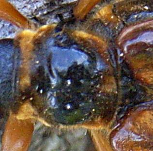 Necydalis ulmi female from Hungary, photographed on 2010-07-08, hairs at Pronotum